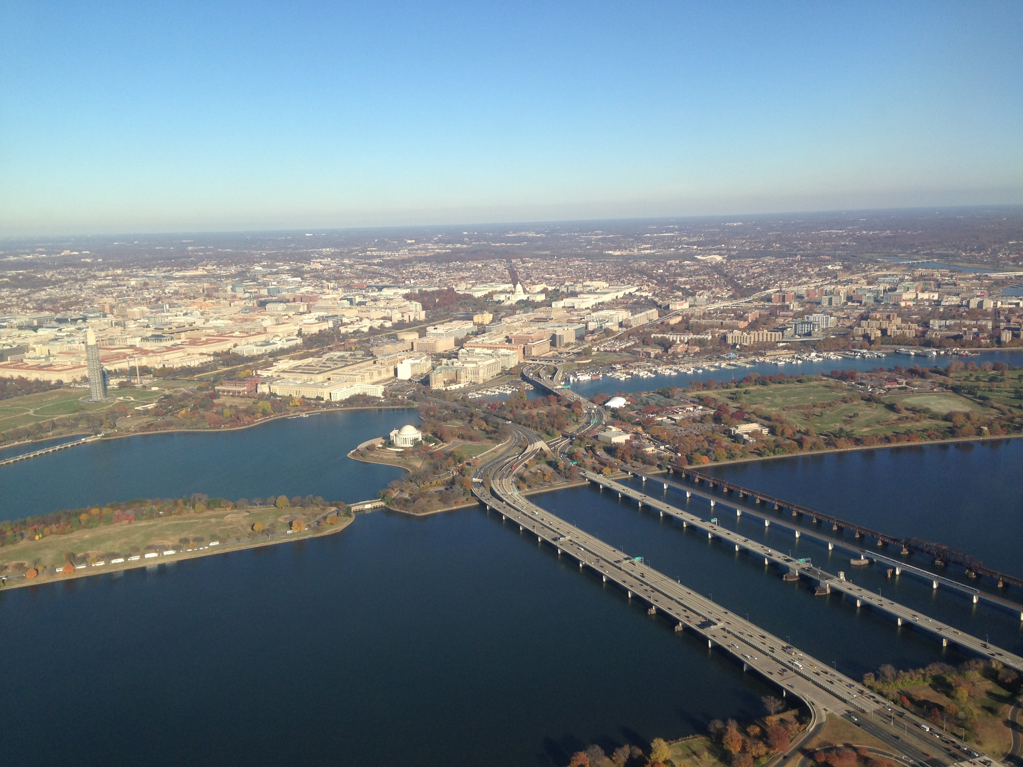 Aerial shot of the 14th Street Bridge complex in Washington, DC and Arlington, Virginia, with the National Mall visible in the background. The former bascule-type drawbridge in the righthand/easternmost road bridge, built in 1950, is clearly visible; it no longer functions.